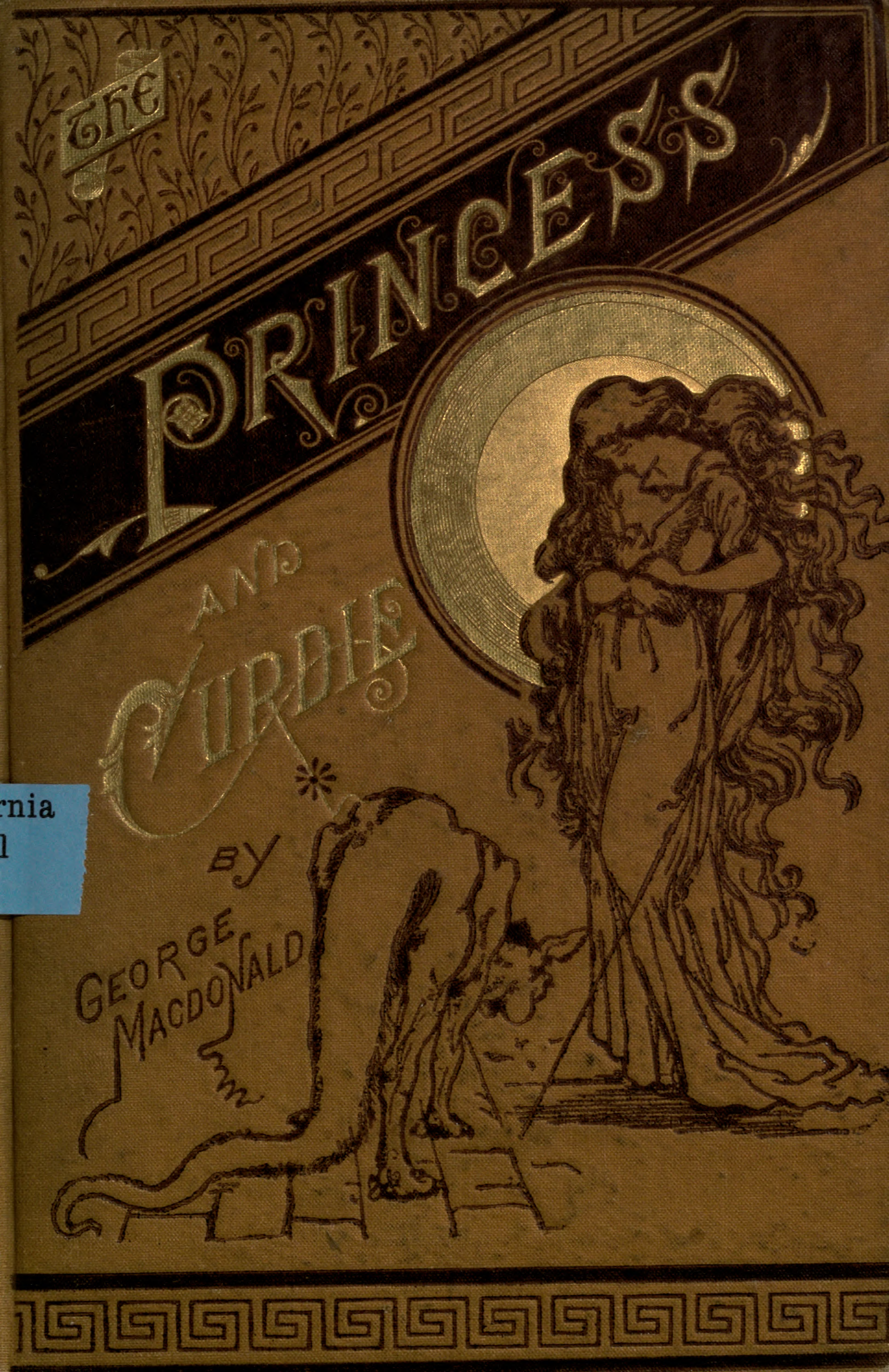 Cover page of The Princess and Curdie (1883) by George MacDonald